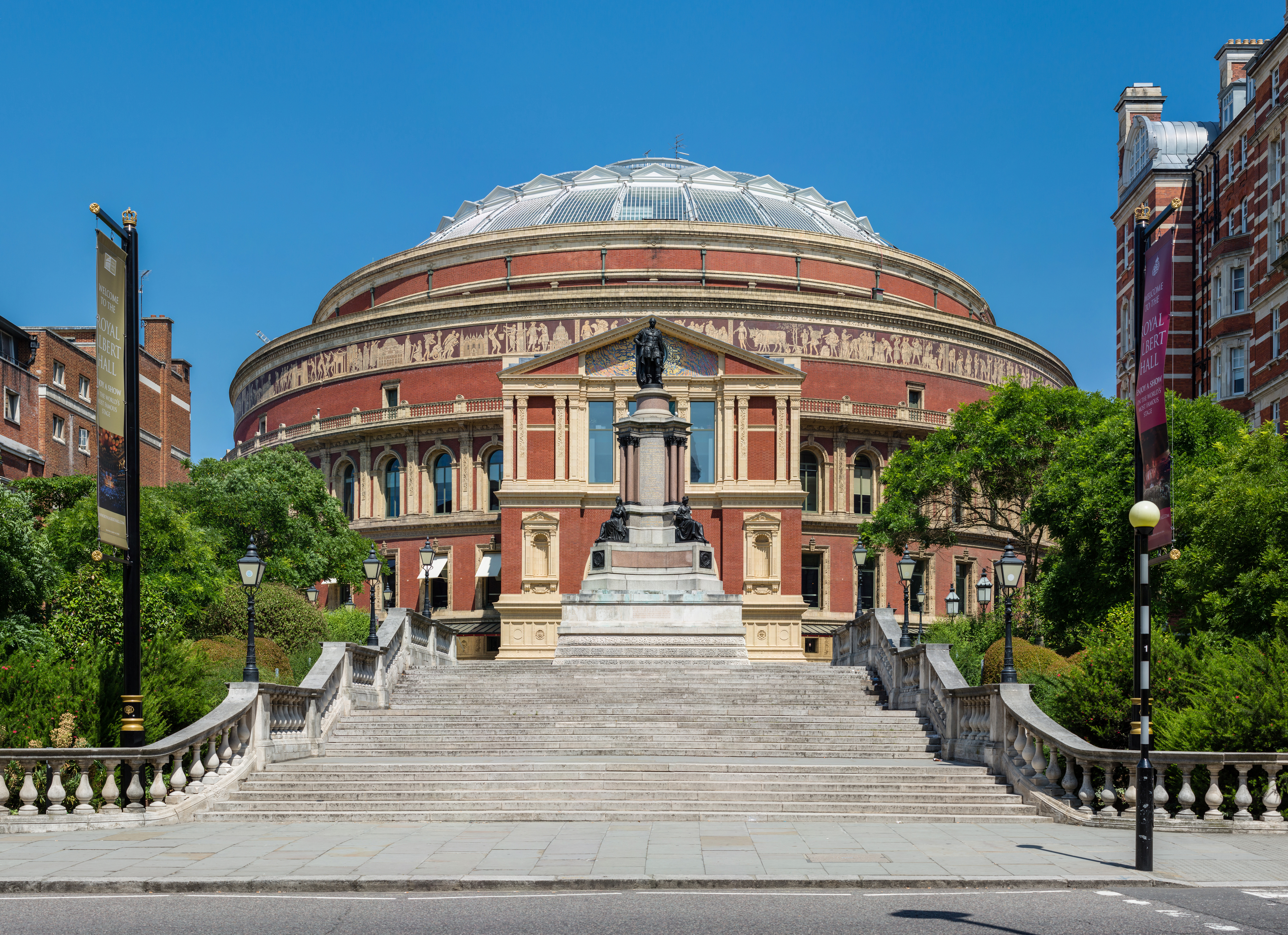 The rear (south) view of the Royal Albert Hall in Knightsbridge, London, England.